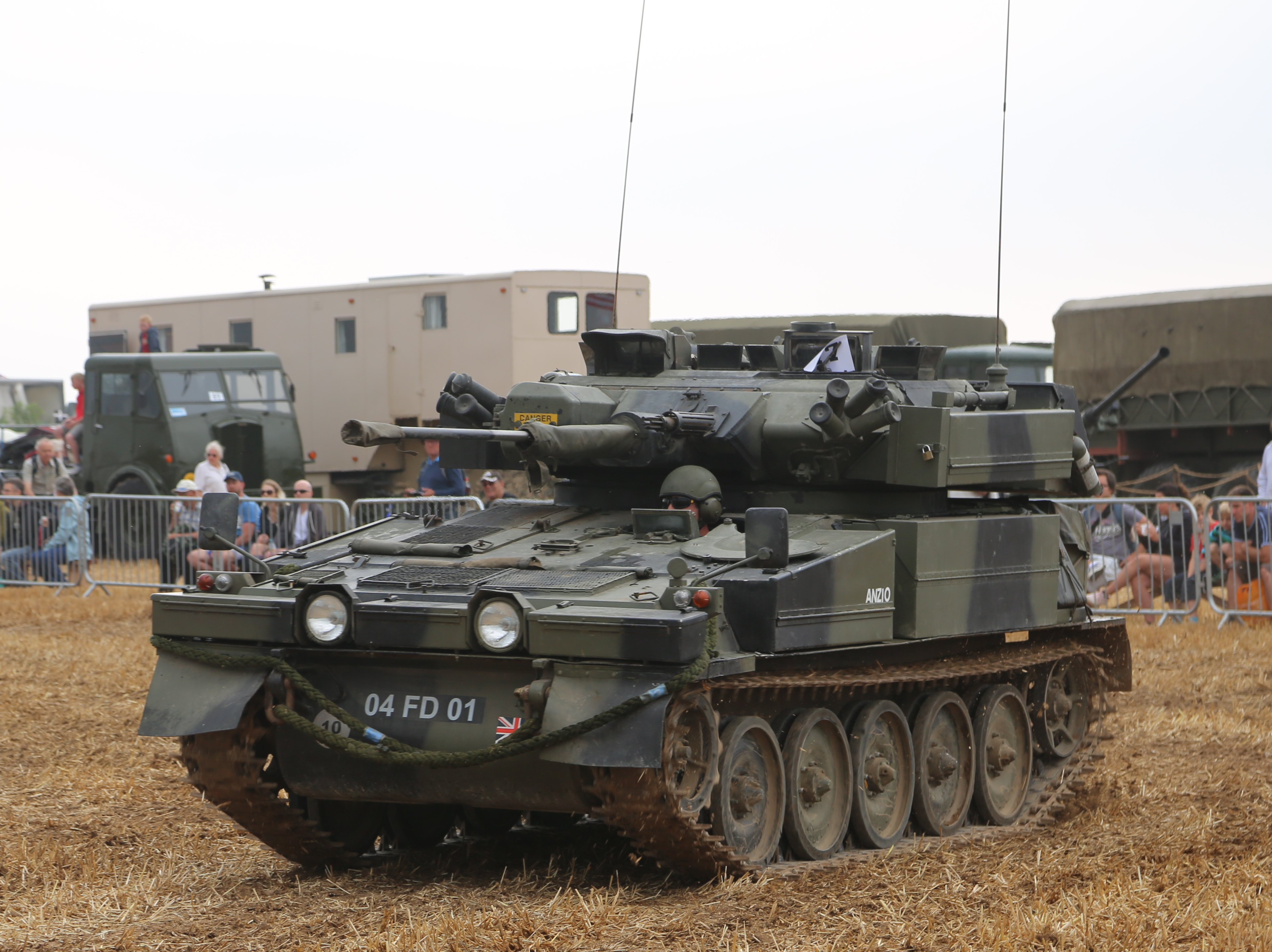 Photo of an Alivs CVRT sabre